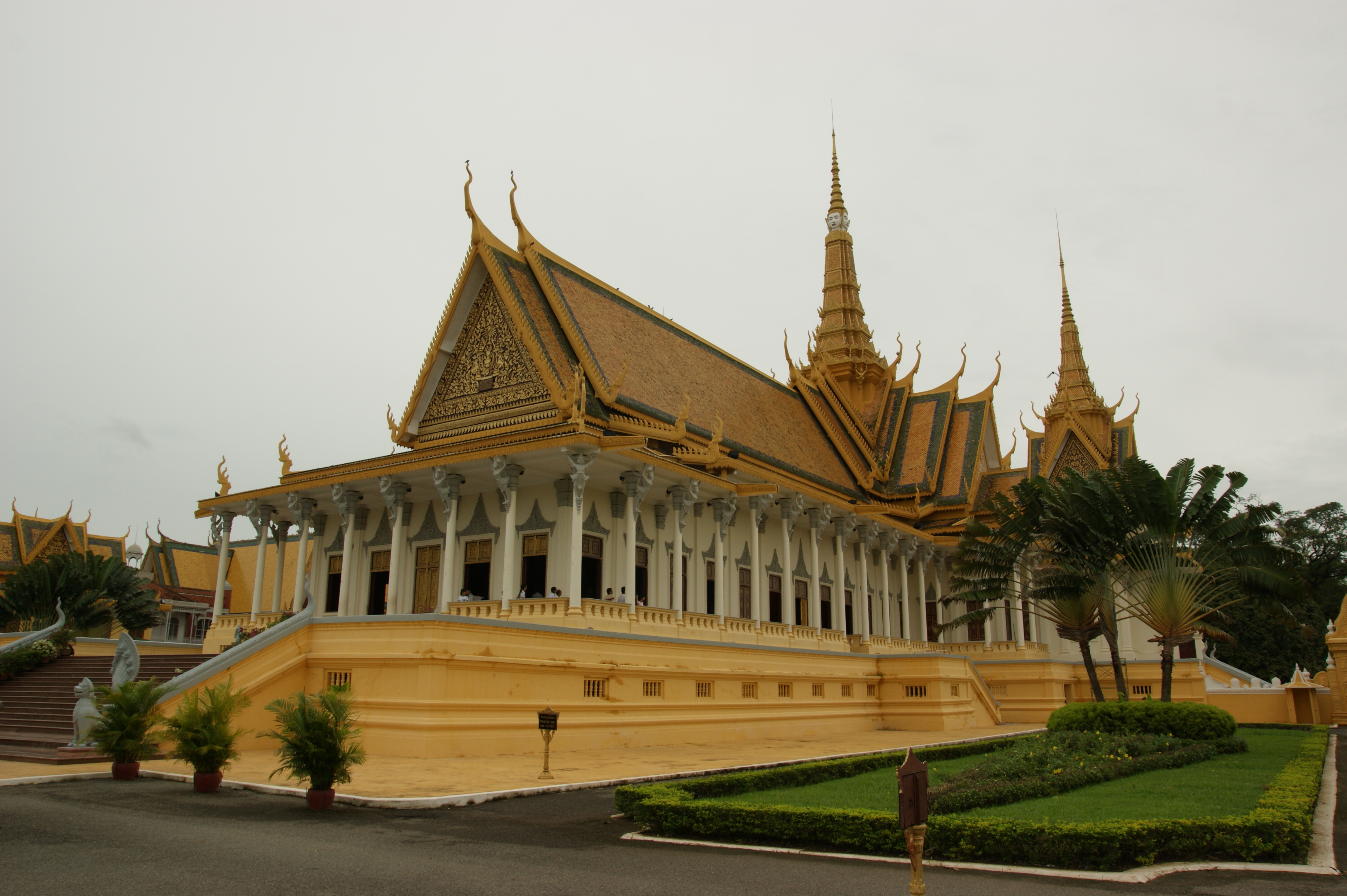 2009-09-07 09-09 Phnom Penh 103 Royal Palace